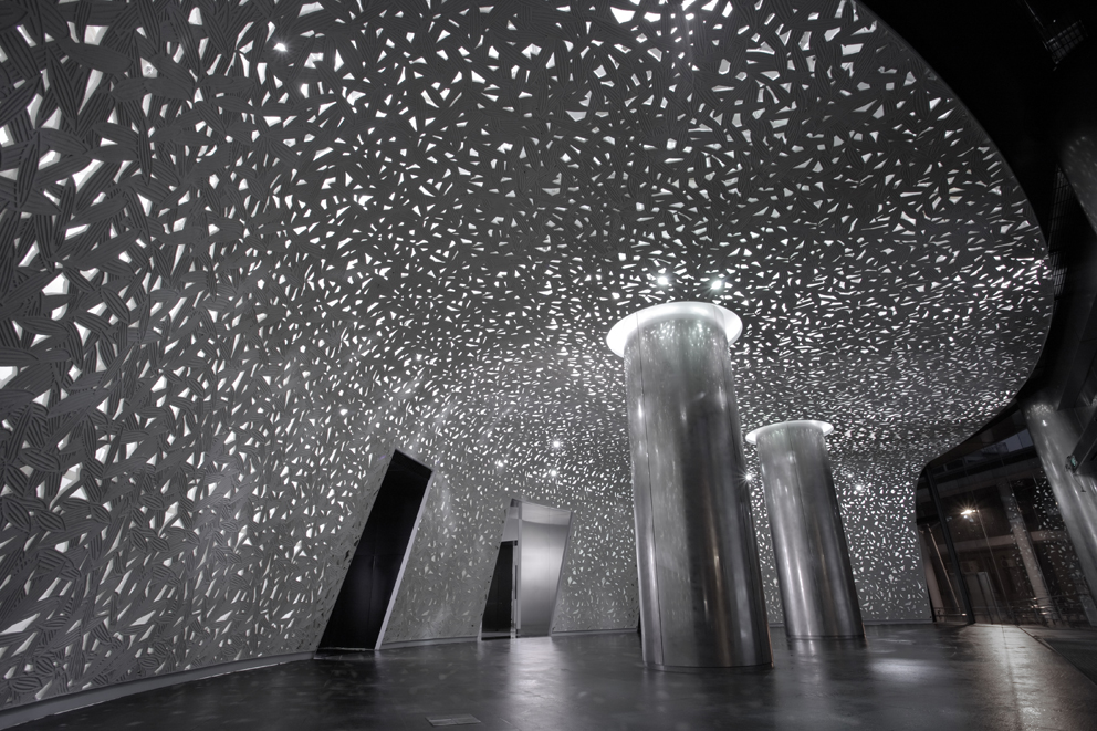 Shanghai